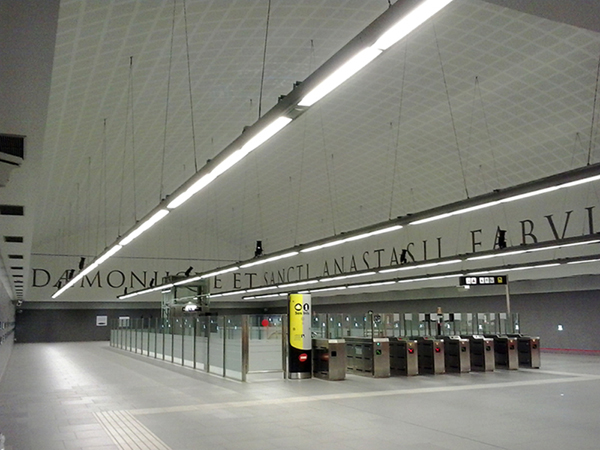 Lobby of the main exit of the Barcelona Metro Pompeu Fabra station in Badalona.